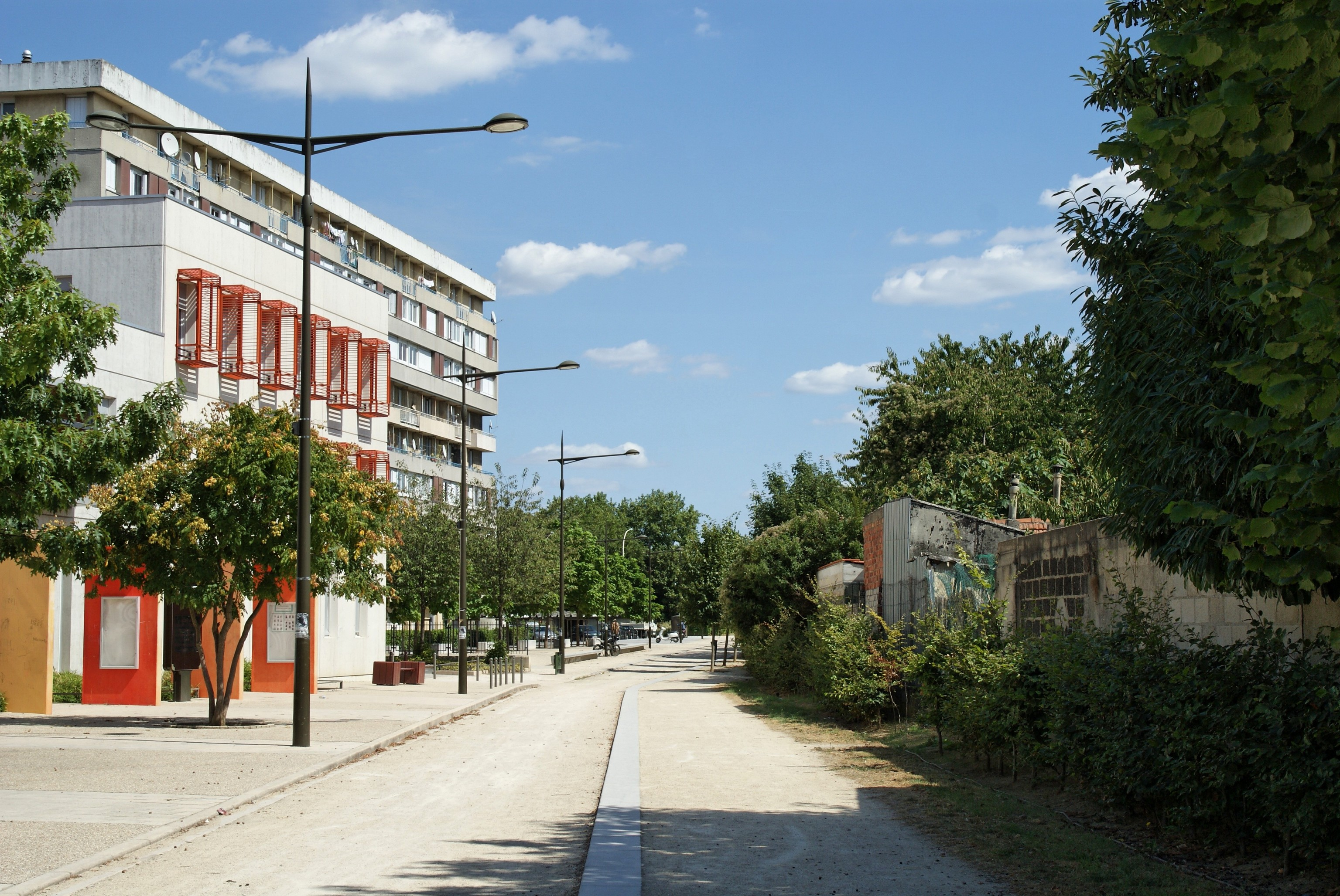 Coulée verte Bièvre - Lilas (Bièvre-Lilas green path) near Robert-Lebon elementary school in Villejuif (Val-de-Marne).